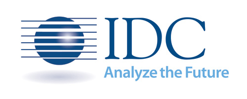 IDC Logo